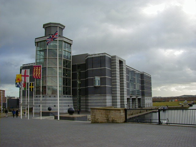 The Royal Armouries Museum in Leeds.